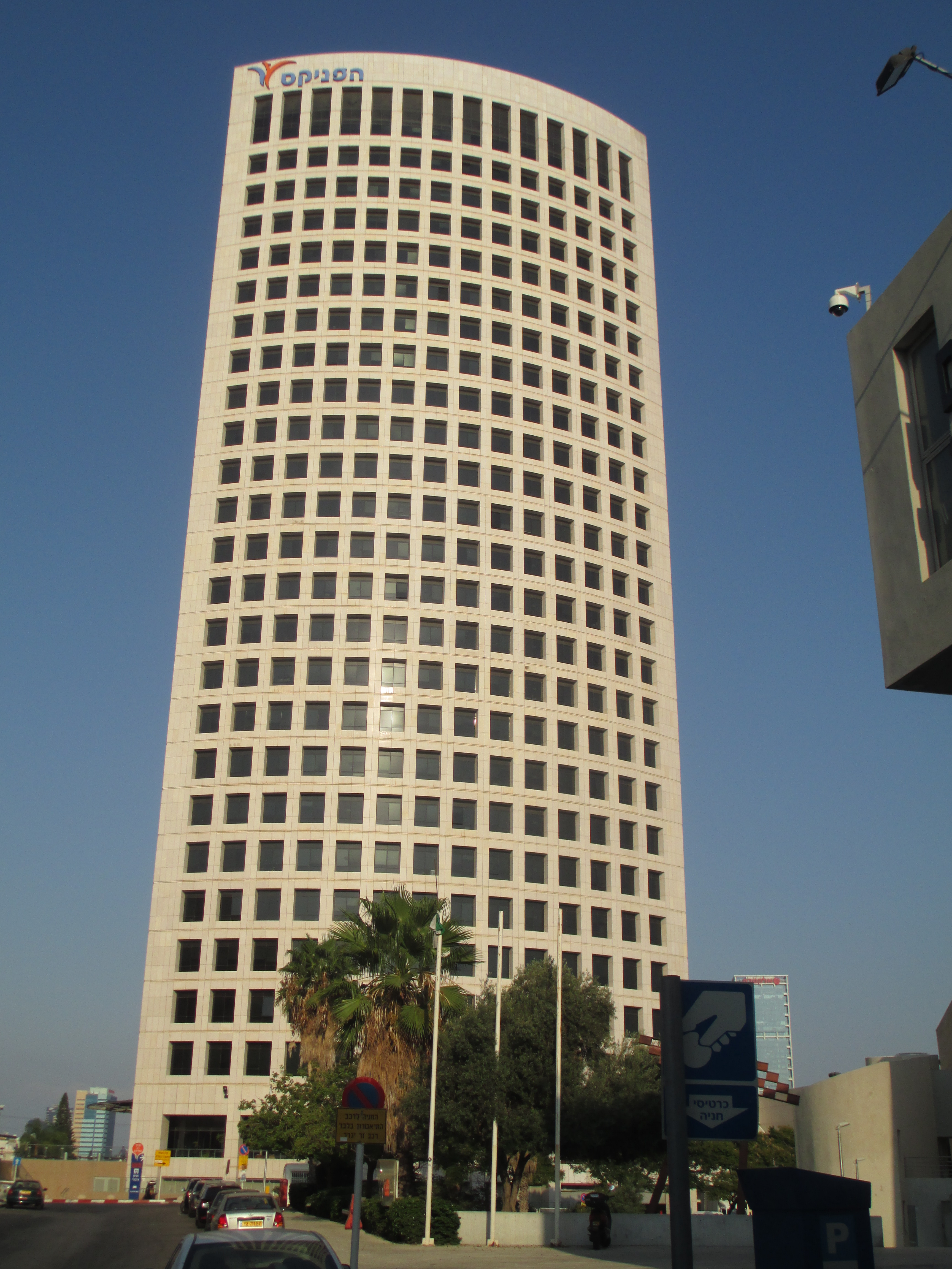 Vered Giv'atayim building in Giv'atayim